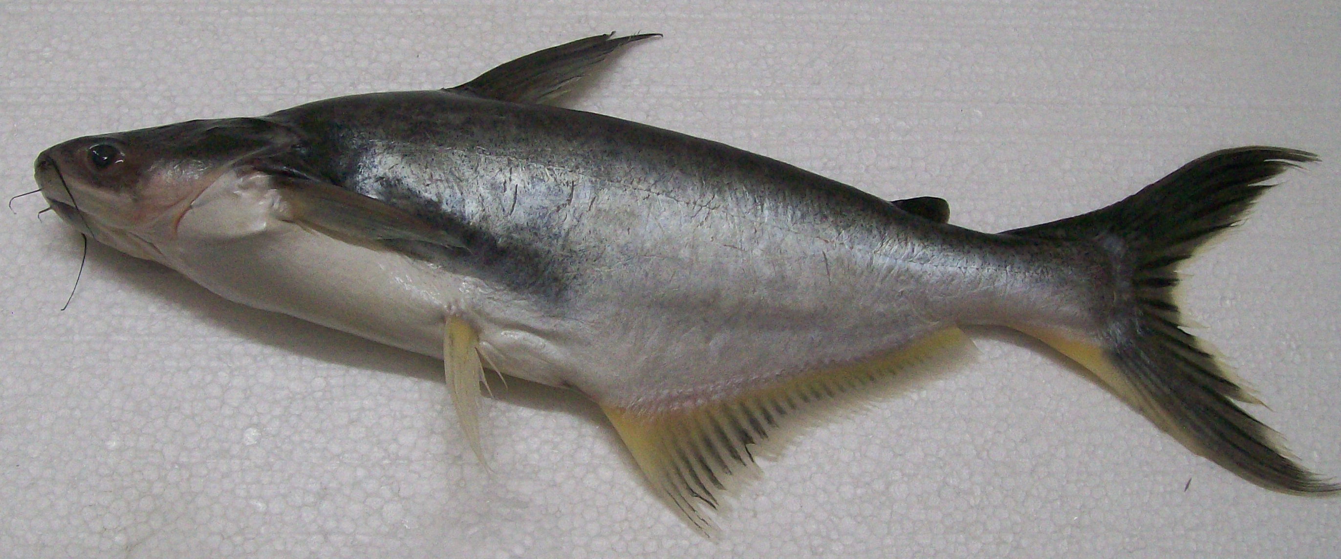 catfish found in India, probably Pangasius pangasius